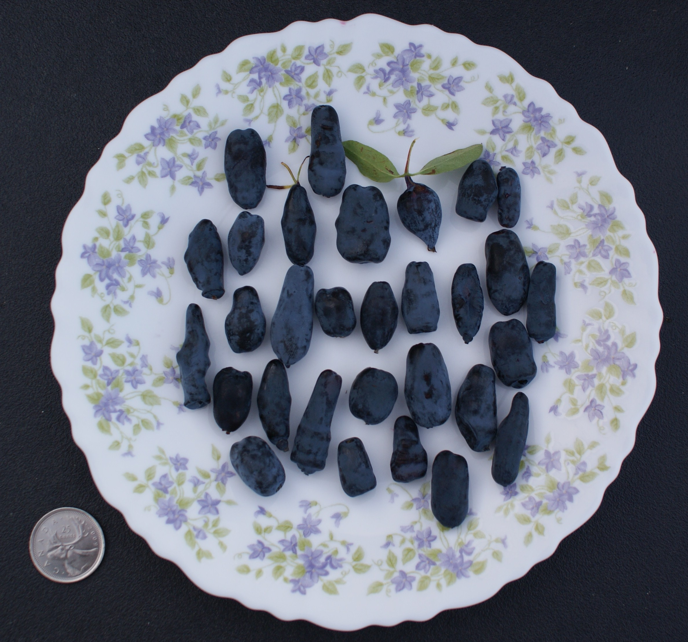 Lonicera caerulea or Haskap berries or blue honeysuckles showing the diversity of shapes and sizes in our breeding program